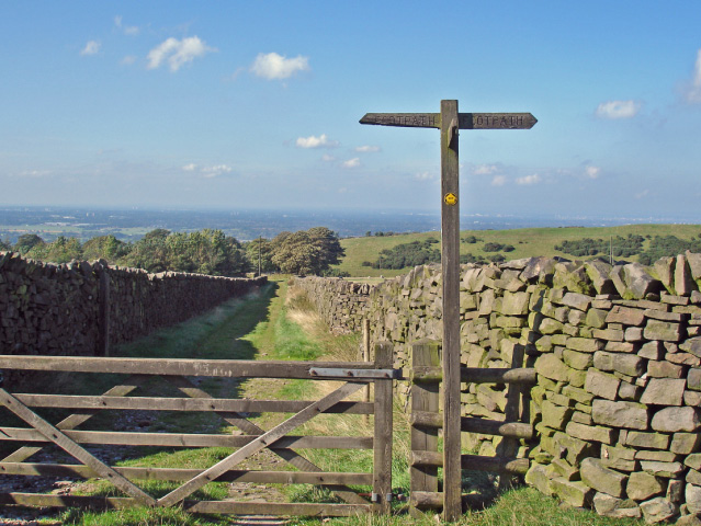 Pott Shrigley: the North Cheshire Way Pott Shrigley: View along the NCW towards Birchencliff from the junction with Moorside Lane. Fine views of the Cheshire Plain on the descent ahead.